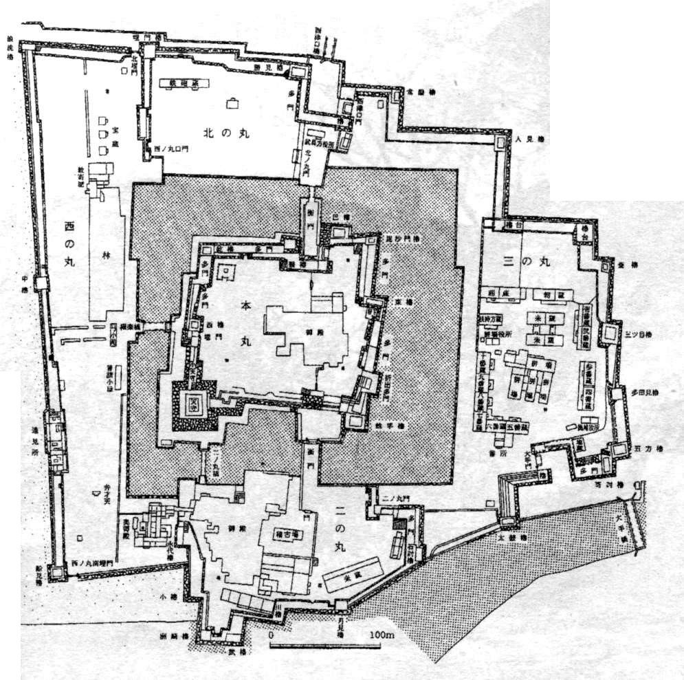 Layout of Obama Castle